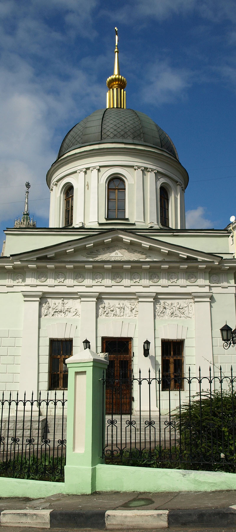 Church of Saint Nicholas in Kotelniki, Moscow. 1822, architect: Joseph Bové